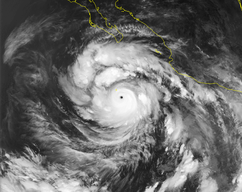 Crop of IR channel image of Hurricane Linda. Cropped by Titoxd